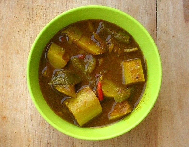 Kaeng tai pla